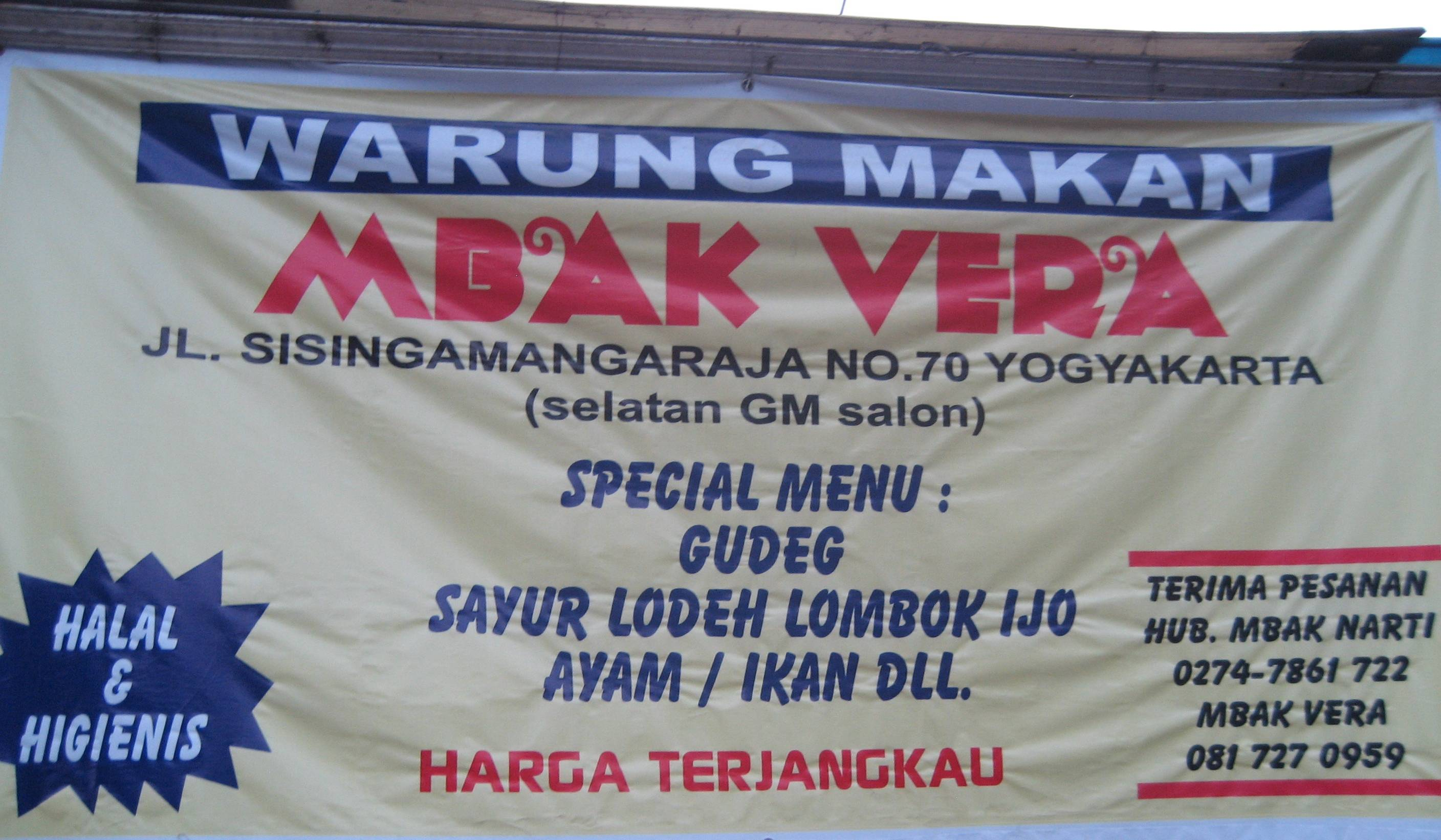 A small restaurant in a Yogyakarta, Indonesia thoroughfare advertises its services